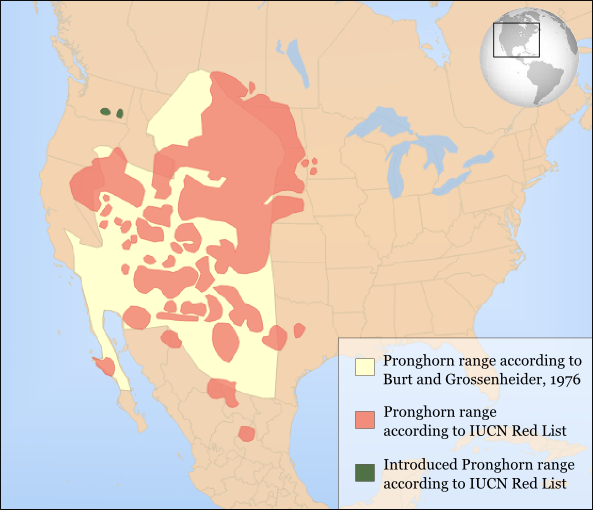 Pronghorn Range in North America